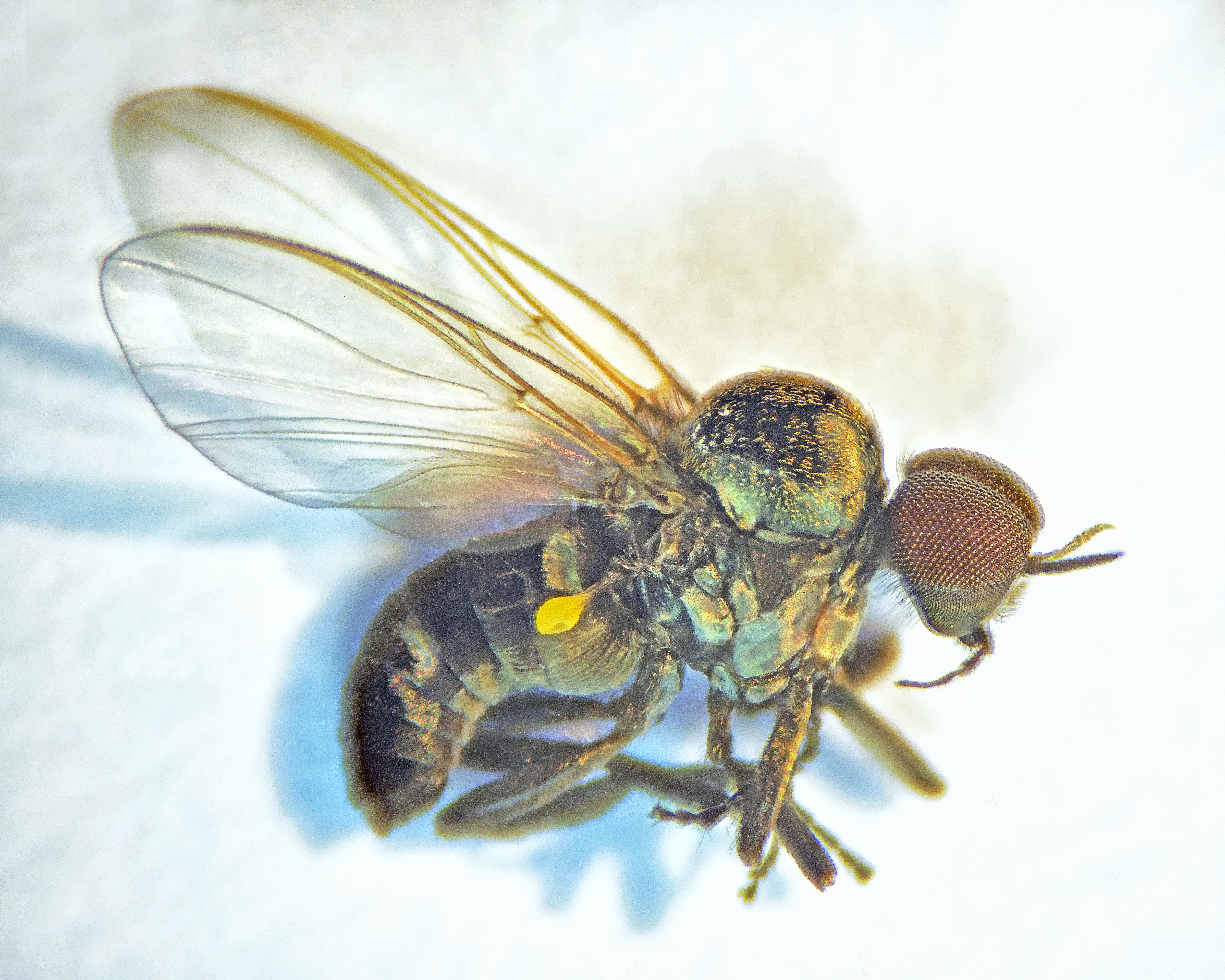 Blackfly